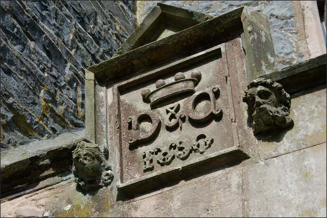 Helen's Tower near Conlig (detail). See 539811. The datestone above the main entrance. "D & A" means "Dufferin and Ava".